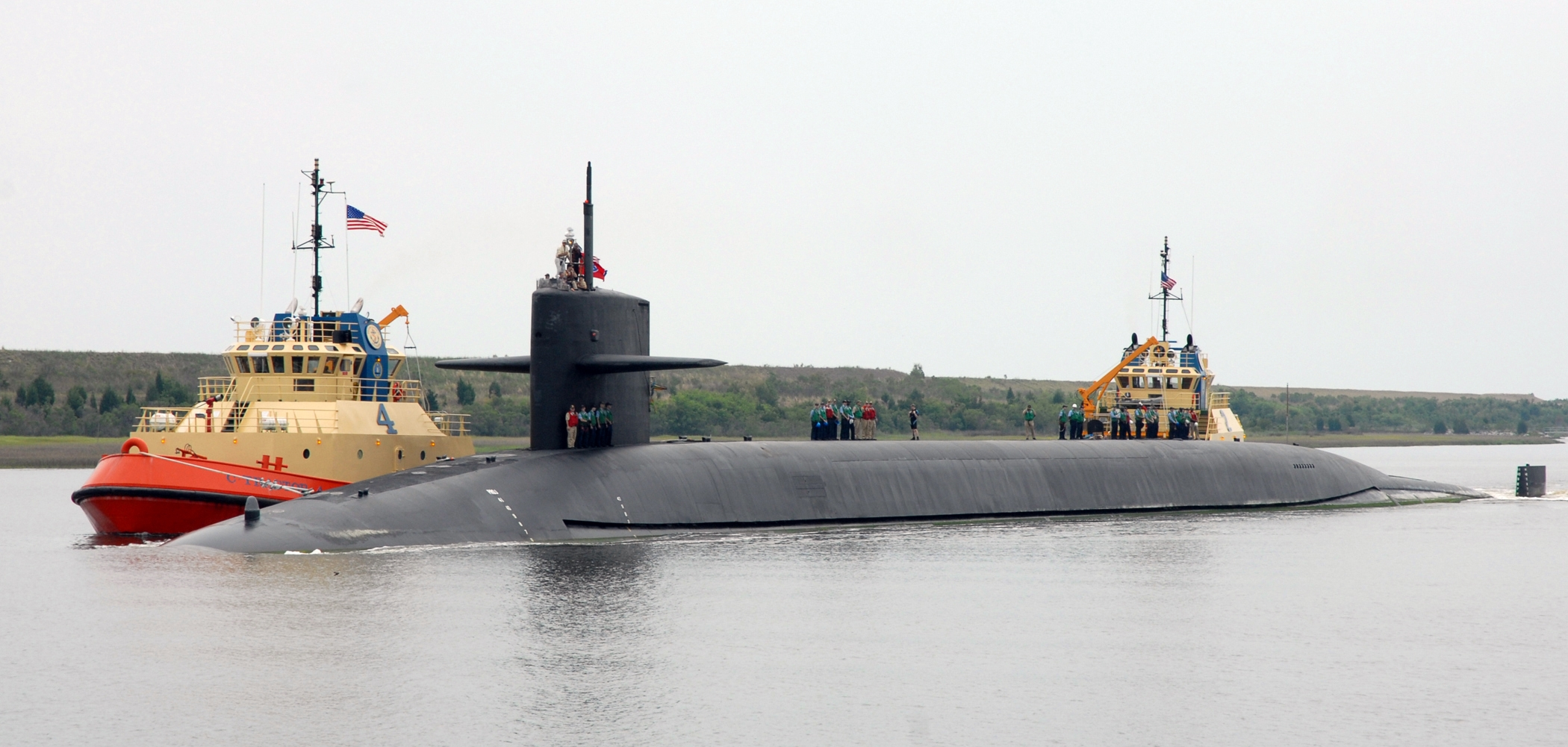 The ballistic missile submarine USS Tennessee (SSBN-734) Gold Crew approach Naval Submarine Base Kings Bay. The Ohio-class submarine consist of two crews, Blue and Gold, which allows for more efficient use of the crew and the submarine.)